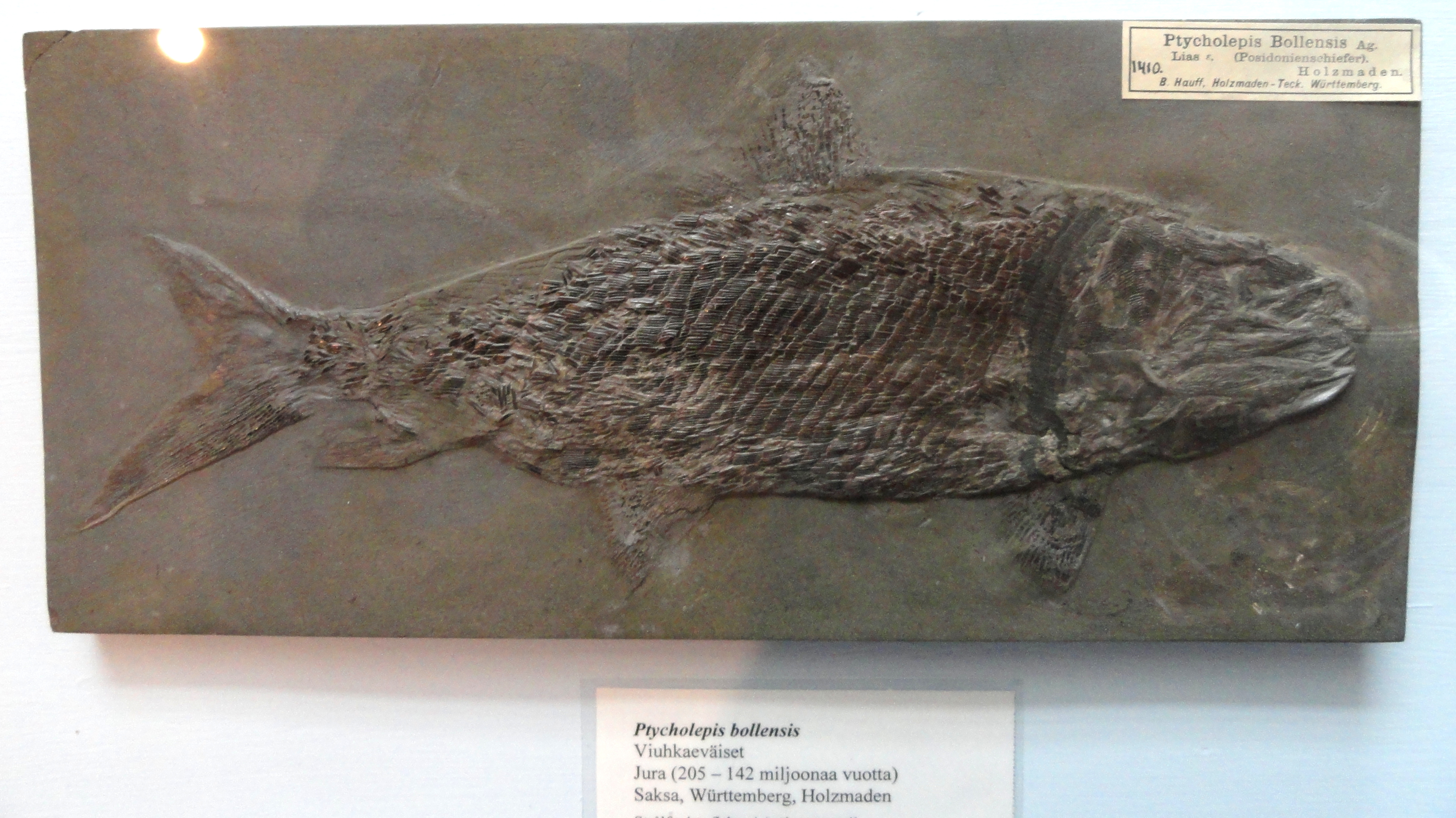 Exhibit in the Arppeanum, Helsinki, Finland.